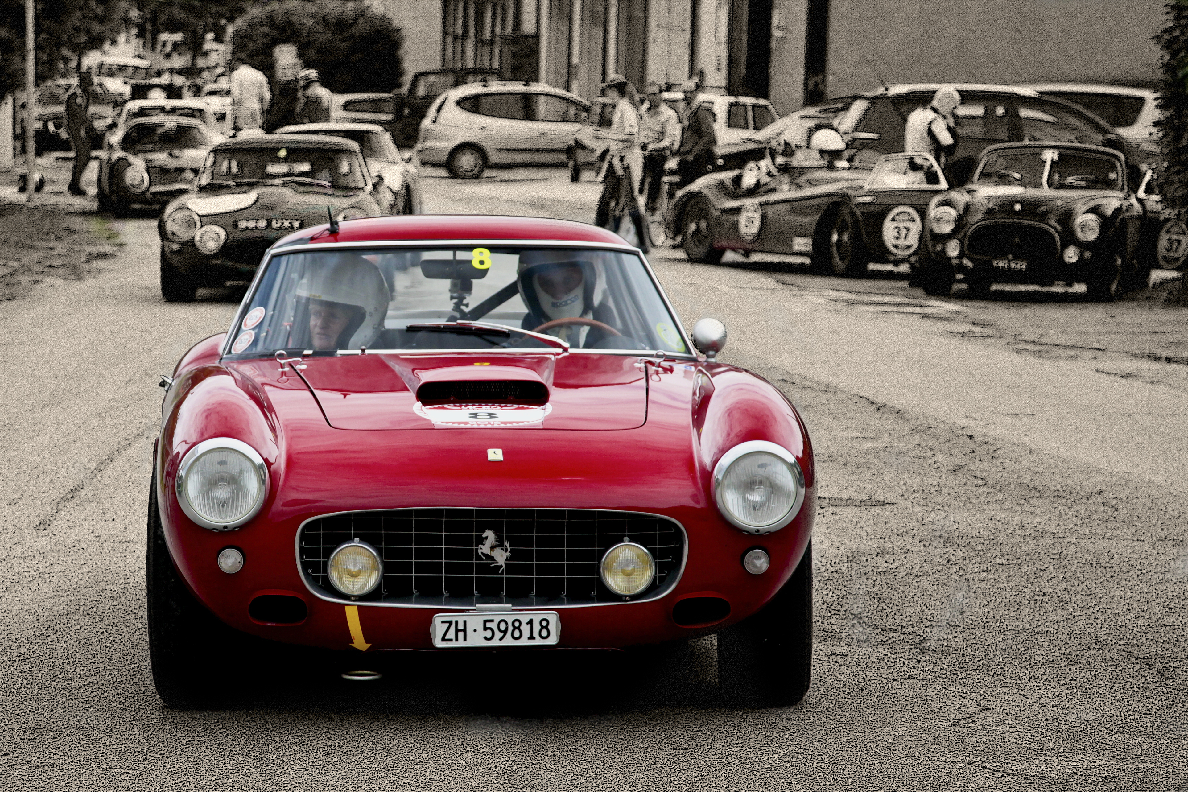 Allemann (CH) at Modena Centa Ore in 1781GT. In the background: 0088E.